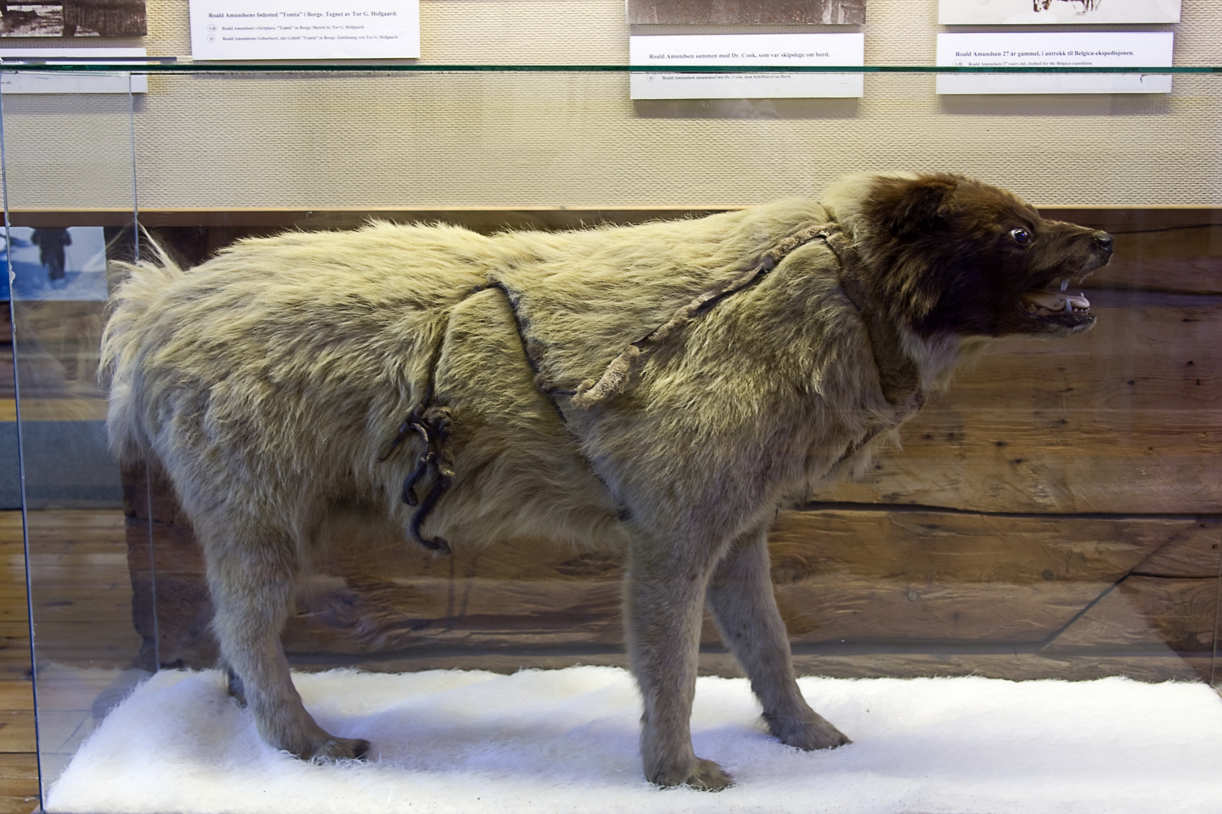 Stuffed dog from the Gjoa polar expedition. Currently in the Polarmuseet, Tromso, Norway.